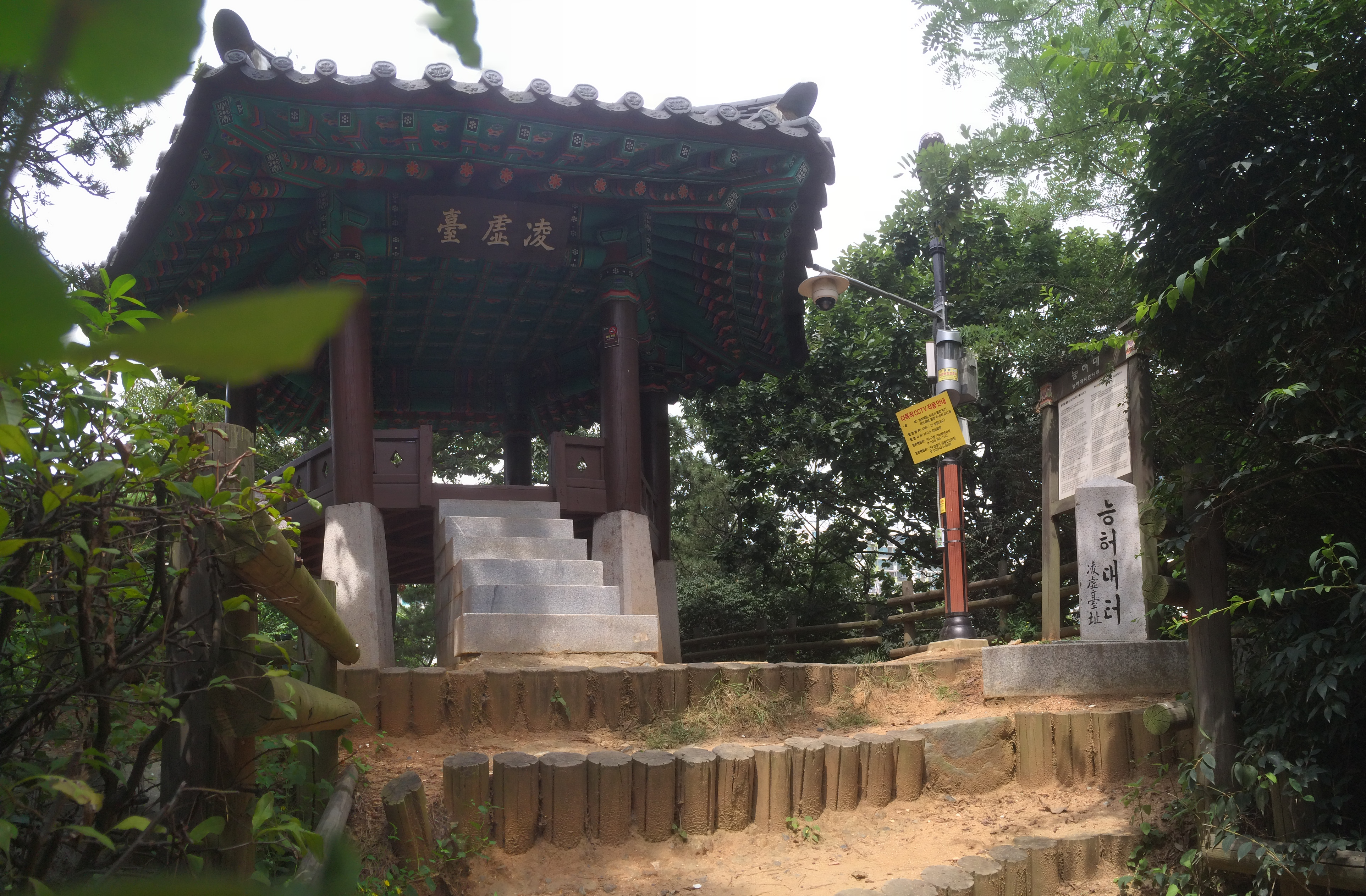 Neungheodae site, an ancient port to ship from Korea to China